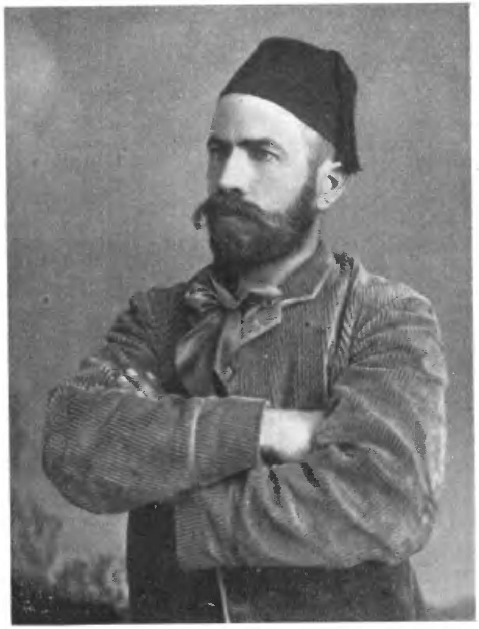 Californian ornithologist and artist William Otto Emerson, from an early issue of The Condor